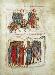 Emperor Nicephorus Enters Bulgaria and The Captured Nicephorus appears before Krum. Miniatures from the Manasias Chronicle, 14th century.